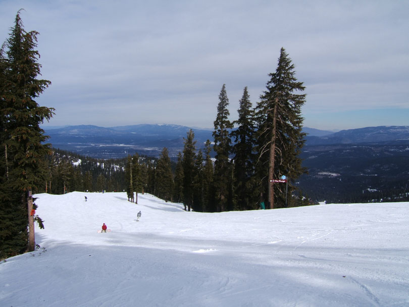 Looking northwest towards Truckee Meadows from the front of the Northstar summit.